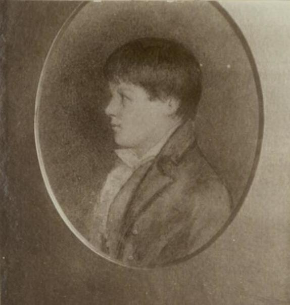 A portrait from the Welsh Portrait Collection at the National Library of Wales. Depicted person: Aneurin Owen – Welsh historical scholar